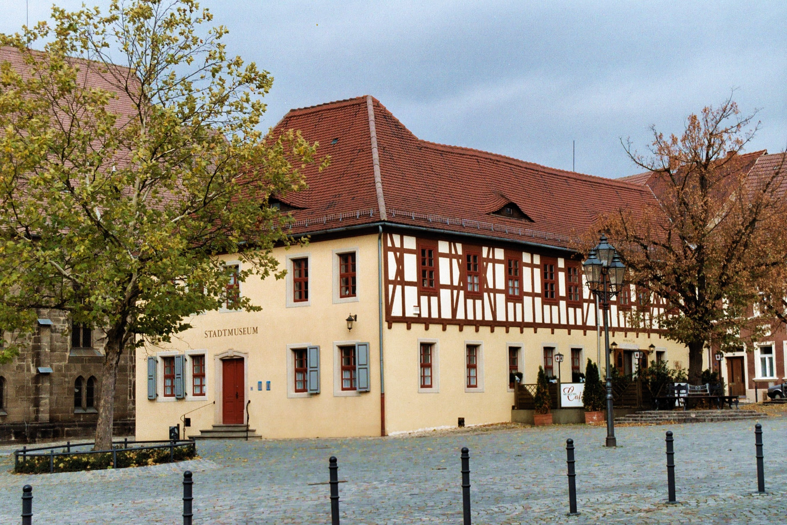 Eisenberg (Thüringen), the town museum